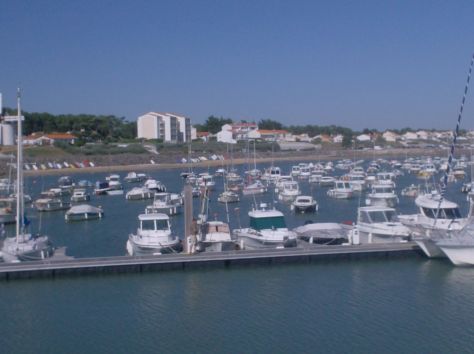 Marina at Jard-sur-Mer